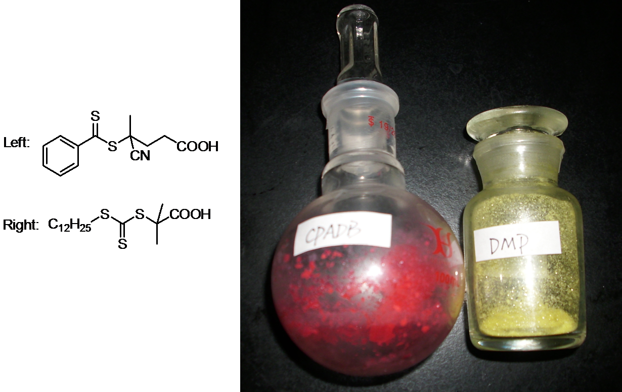 Reversible addition−fragmentation chain-transfer polymerization agents